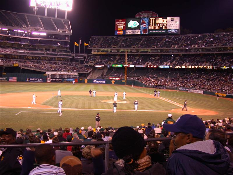 Ballpark: A picture of the Coliseum in Oakland. Taken 09/29/2004.